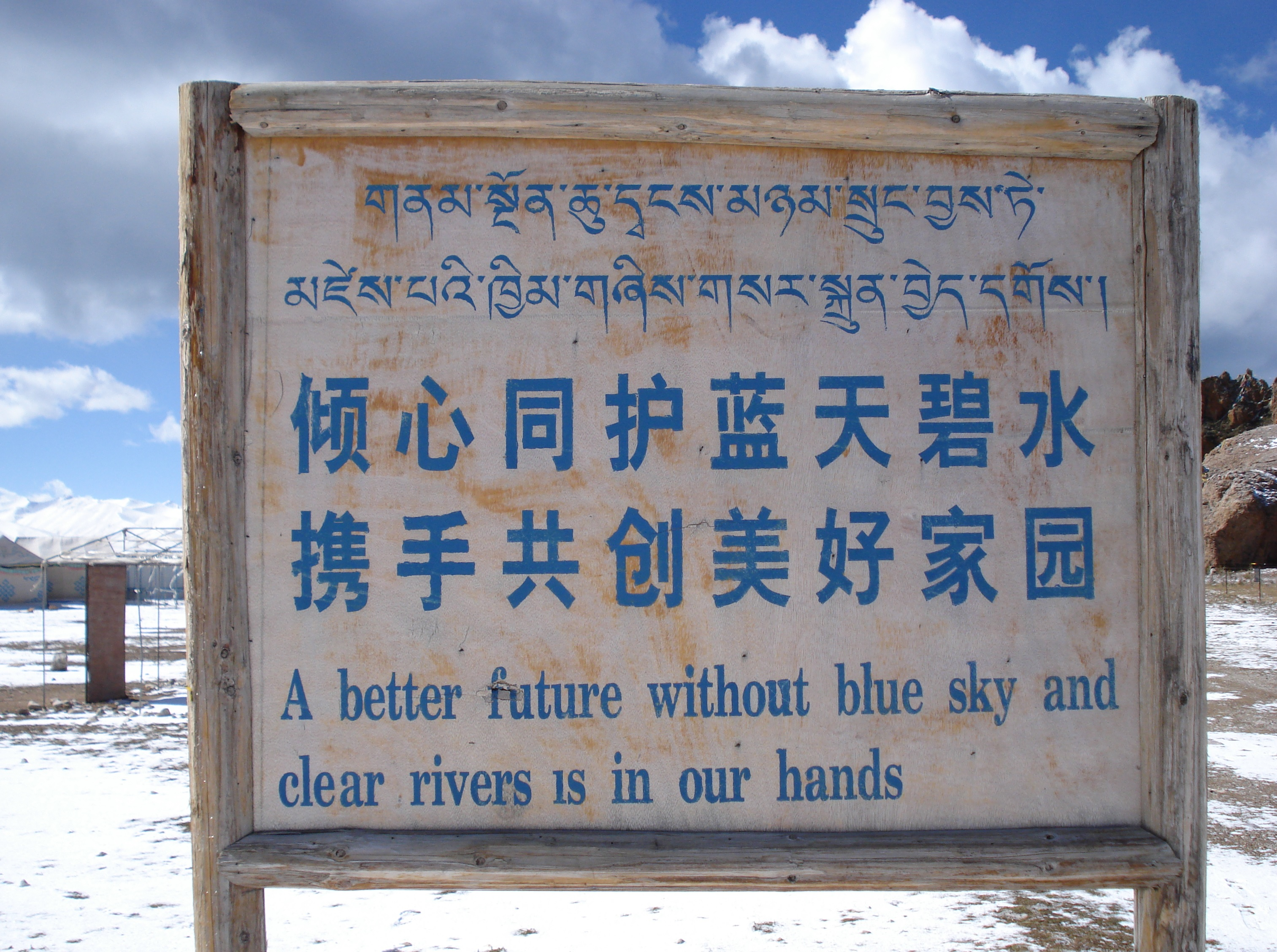 A fine Chinglish example at Namtso, Tibet